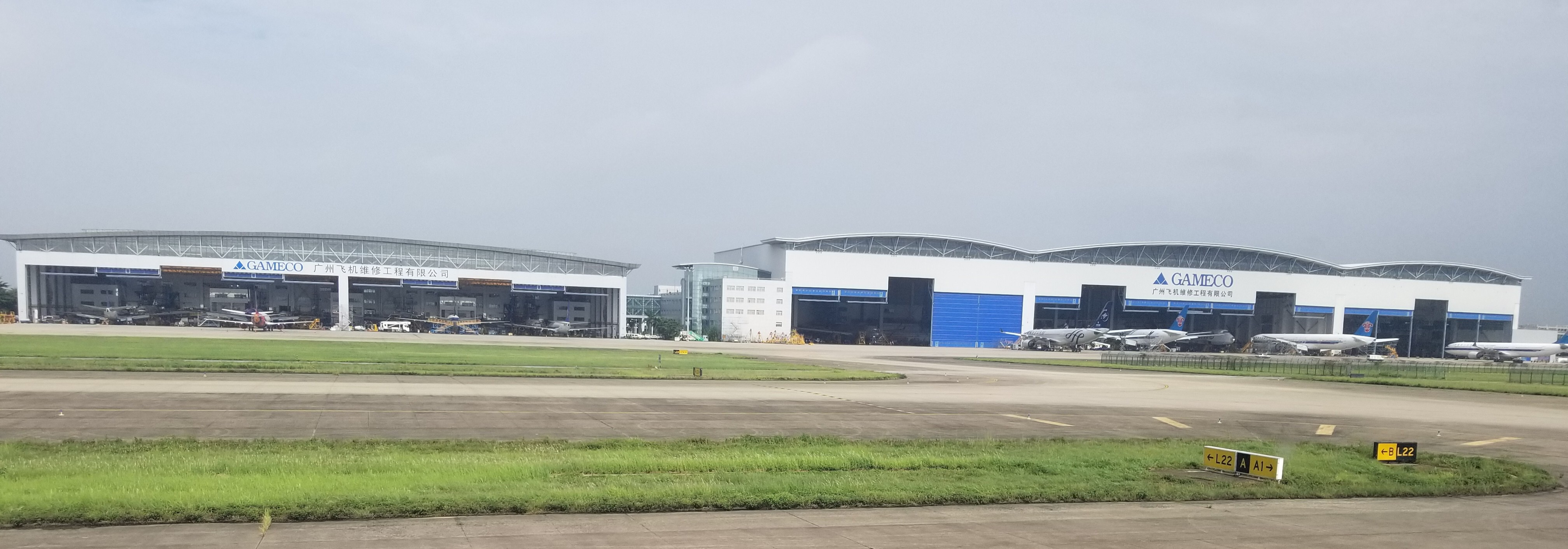 Guangzhou Aircraft Maintenance Engineering Company Limited hangers at Guangzhou Baiyun International Airport